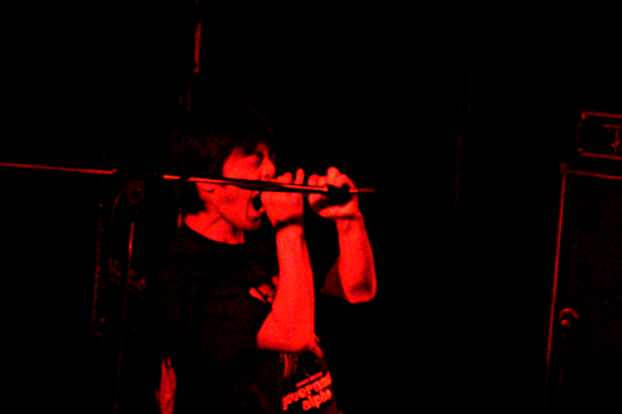 Government Alpha "playing" with Astro, Paal Nilsen-Love and Kelly Churko... Nice show, a mix between noise and grindcore. Very energic!!